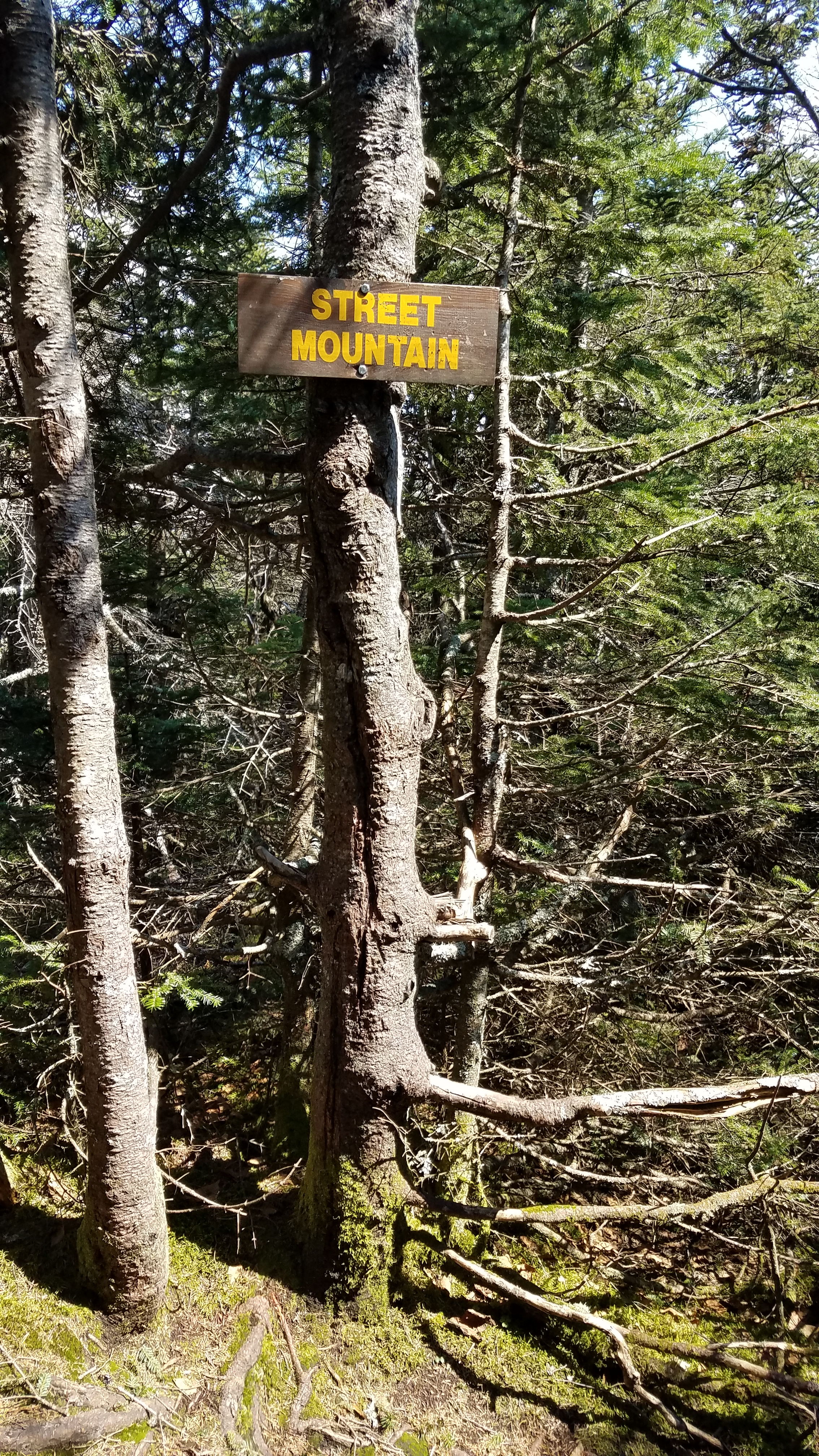 The trail sign at Street Mountain's peak. It should be noted that Street mountain does not have a panoramic at the peak. This image was taken May 19th, 2019 at 2:58 PM.